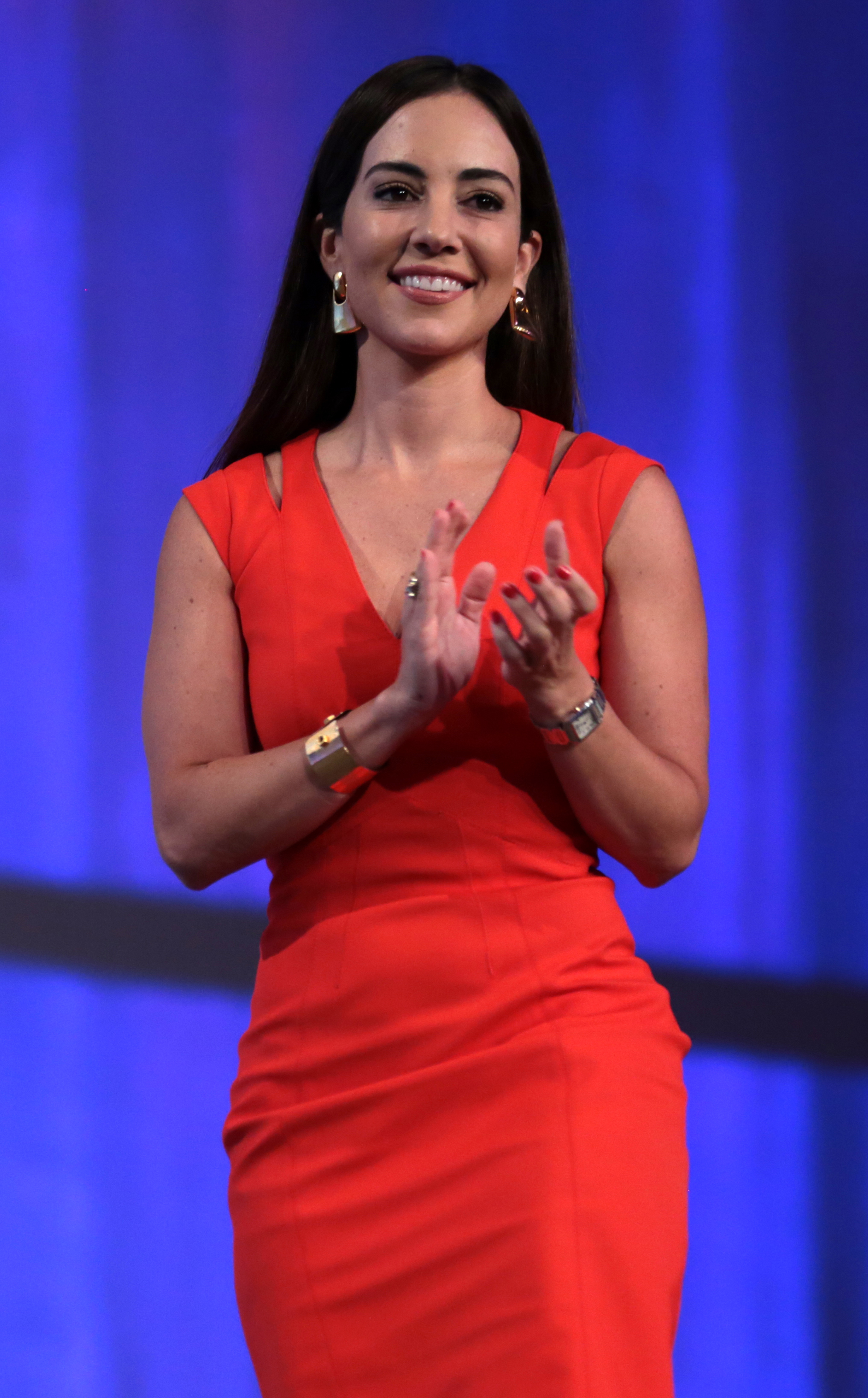 Mariana Atencio speaking at an event in Phoenix, Arizona.